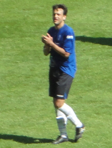 Markus Schuler, german football player, wearing the jersey of Arminia Bielefeld in 2011.